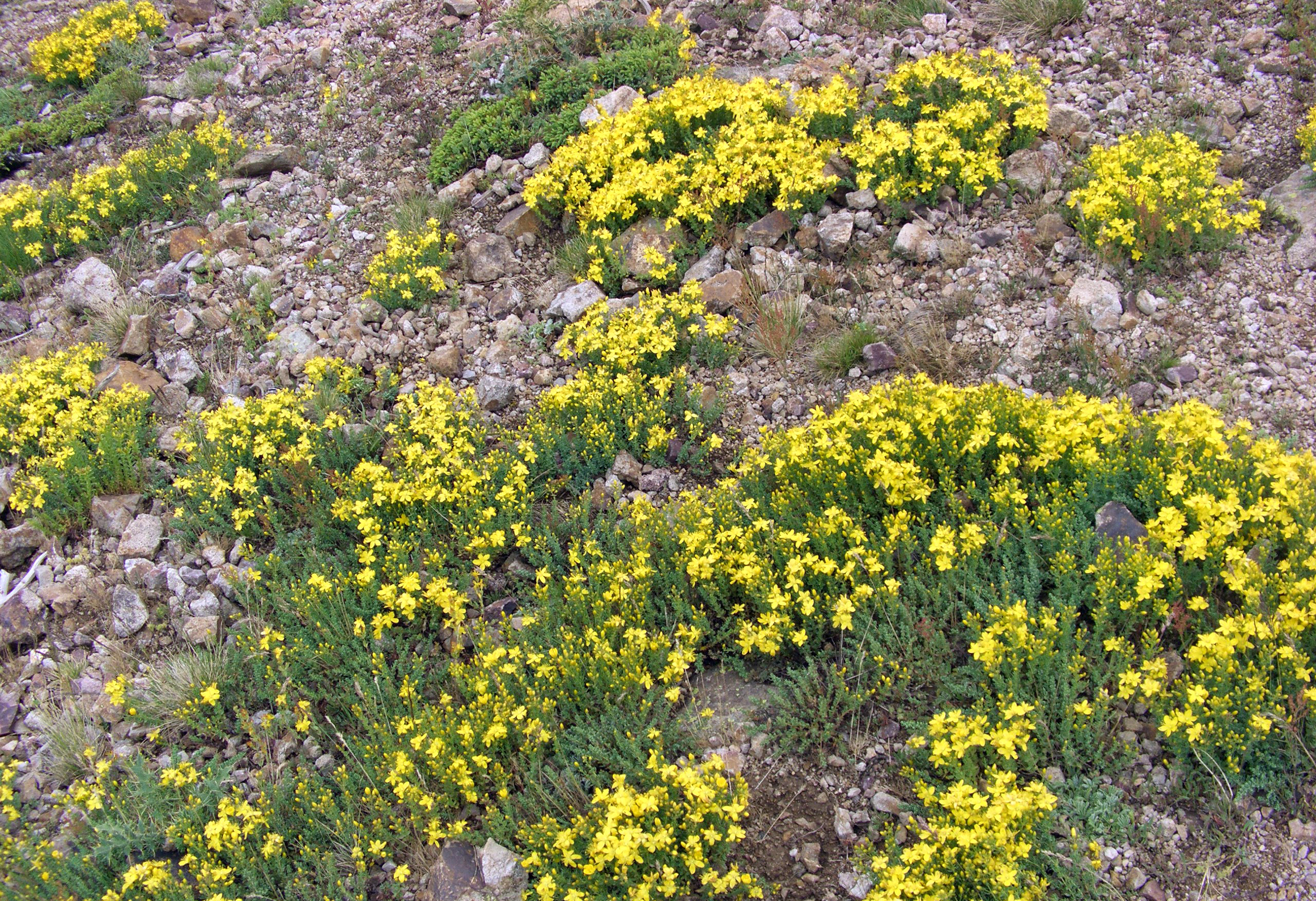 Hypericum bithynicum. Kurtbeli, Alucra, Giresun - Turkey.